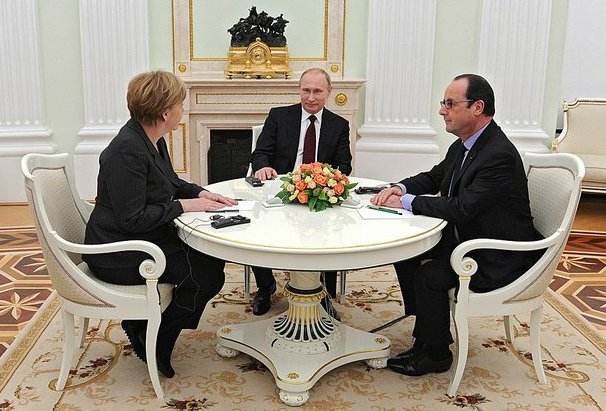 Federal Chancellor of Germany Angela Merkel, President of Russia Vladimir Putin, President of France François Hollande at the Kremlin to discuss solutions to the situation in southeast Ukraine. (2015-02-06)